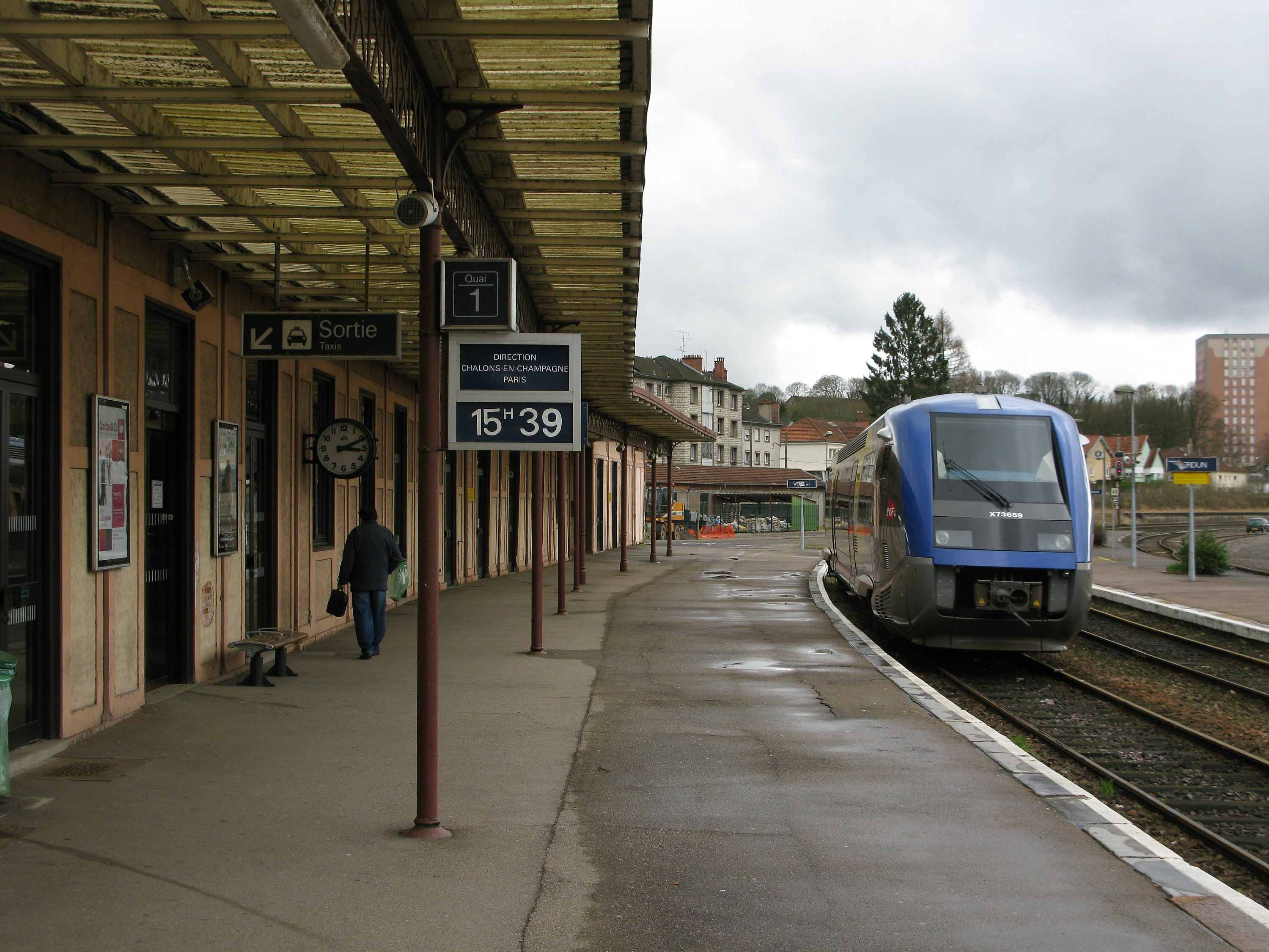 Train Station of Verdun, France